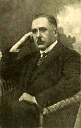 Ferdynand Ossendowski, a Polish writer, journalist, explorer and globe-trotter.